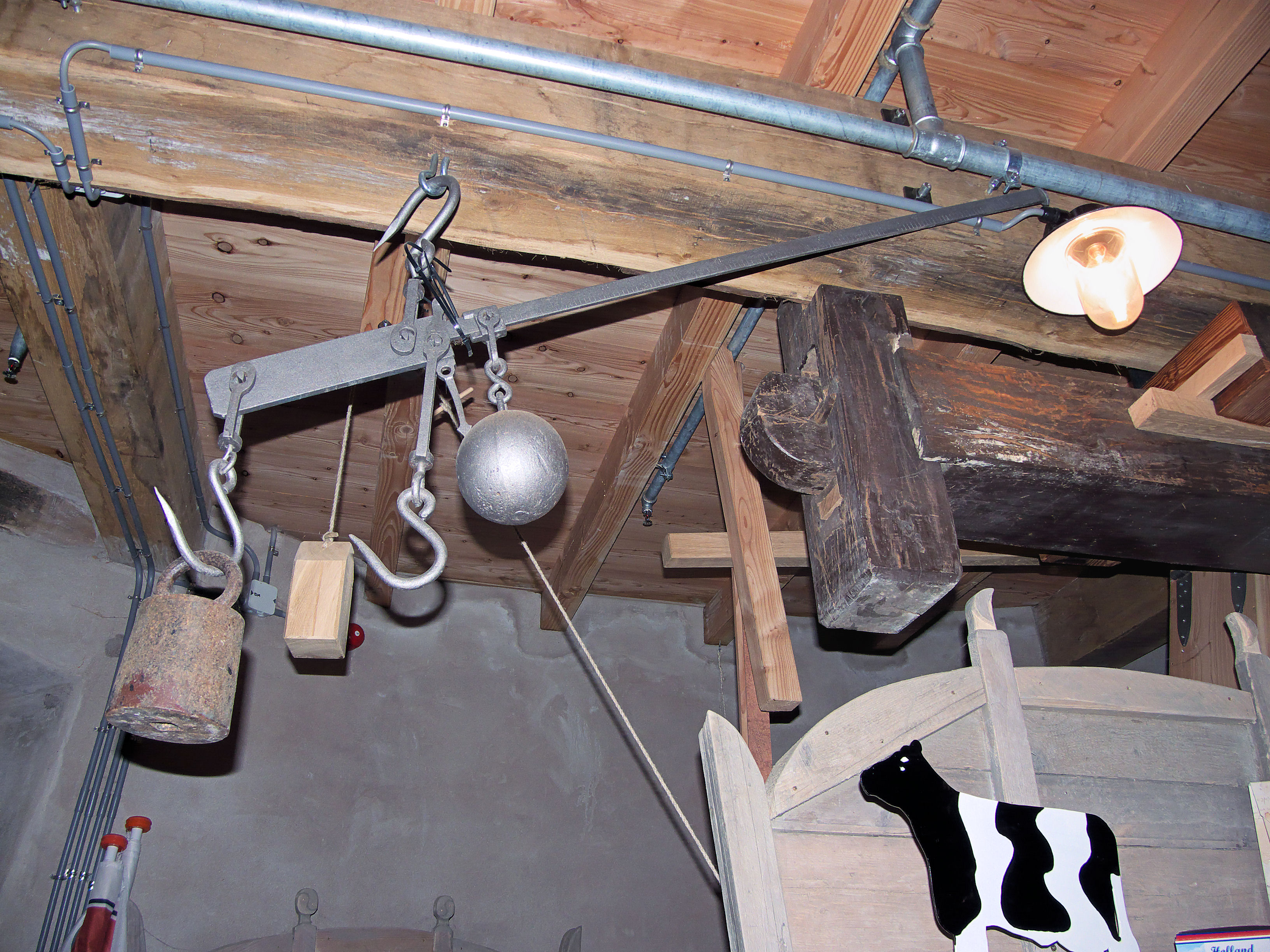 Steelyard balance